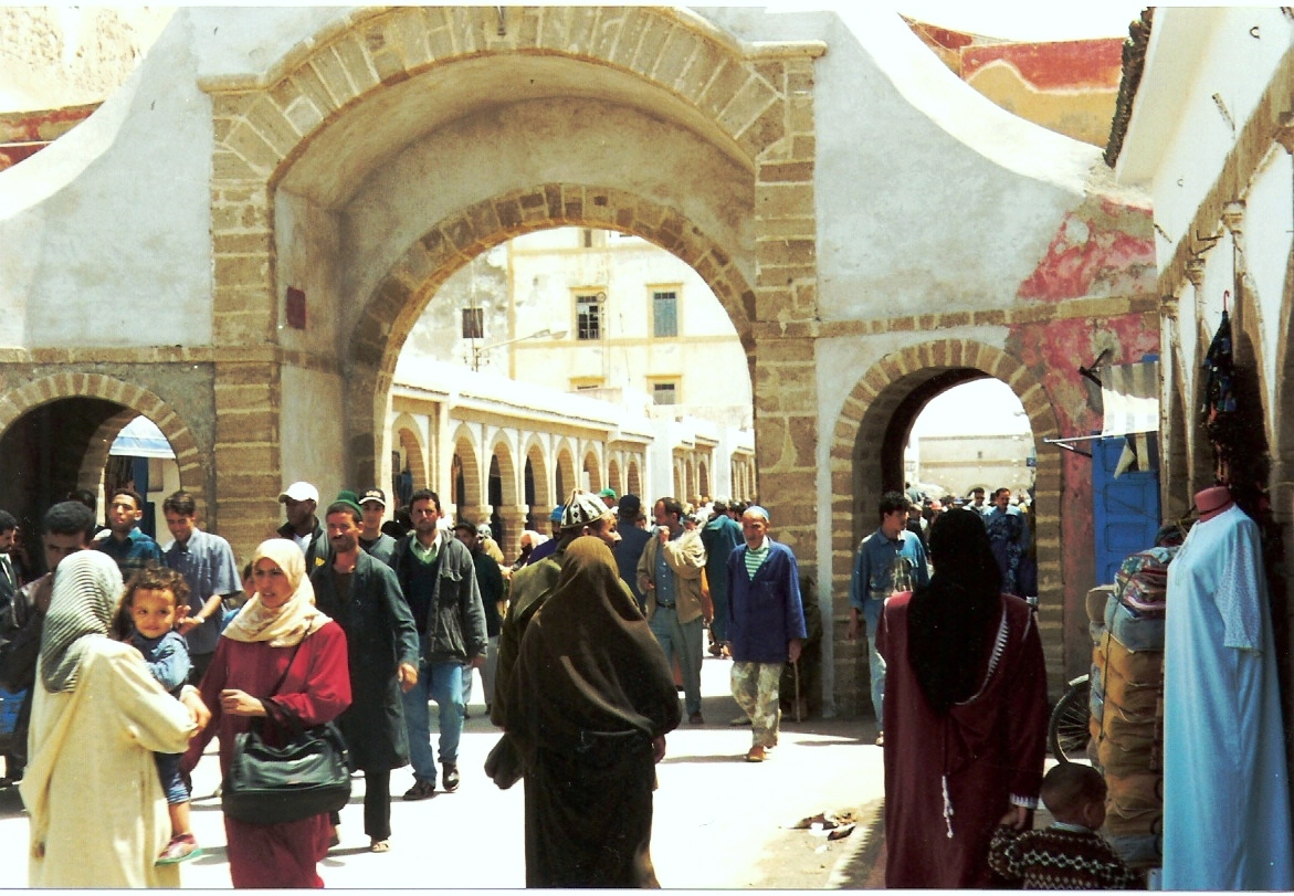 Essaouira, the Medina, showing women wearing the traditional Jilbāb